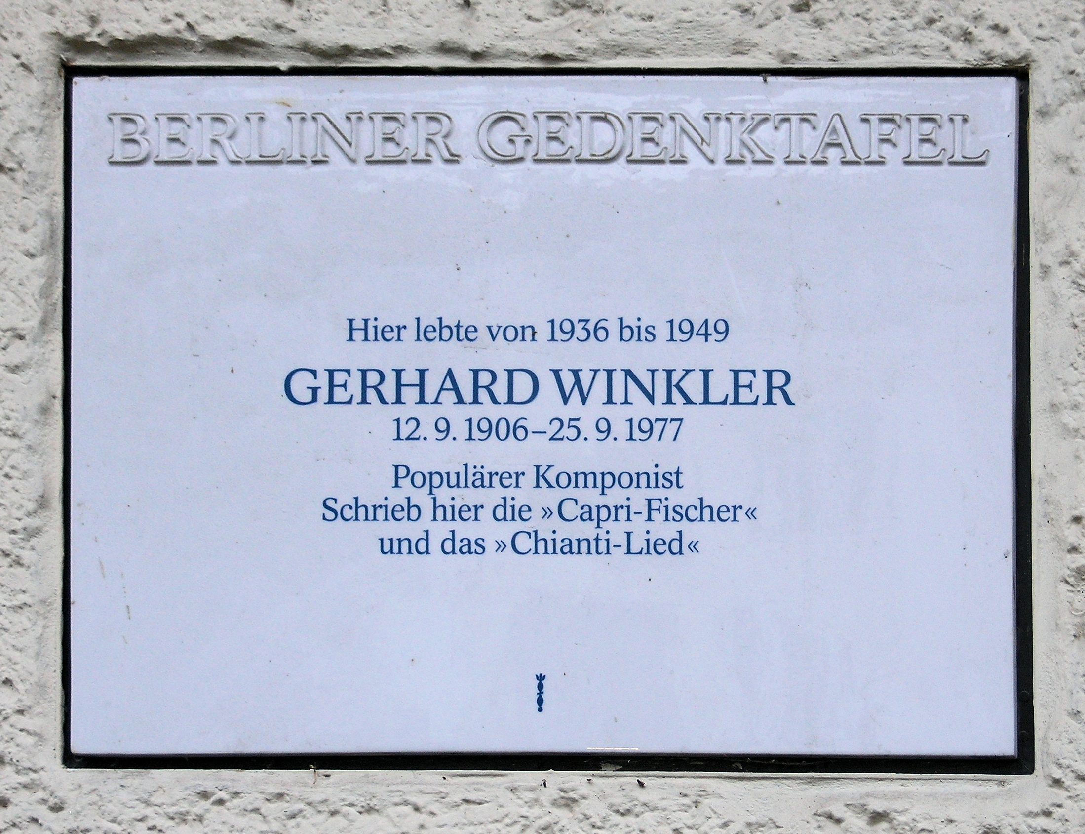 Berlin memorial plaque, Gerhard Winkler, Nassauische Straße 61, Berlin-Wilmersdorf, Germany Koordinate:52°29′34″N 13°19′36″E / 52.49278°N 13.32667°E